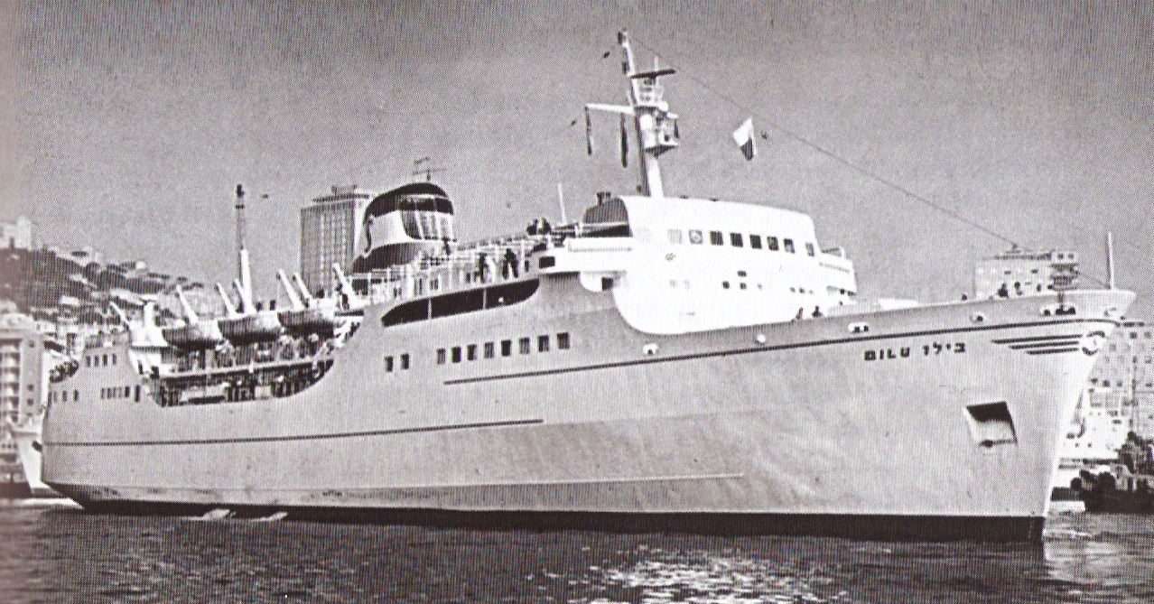 Israel Defense Forces